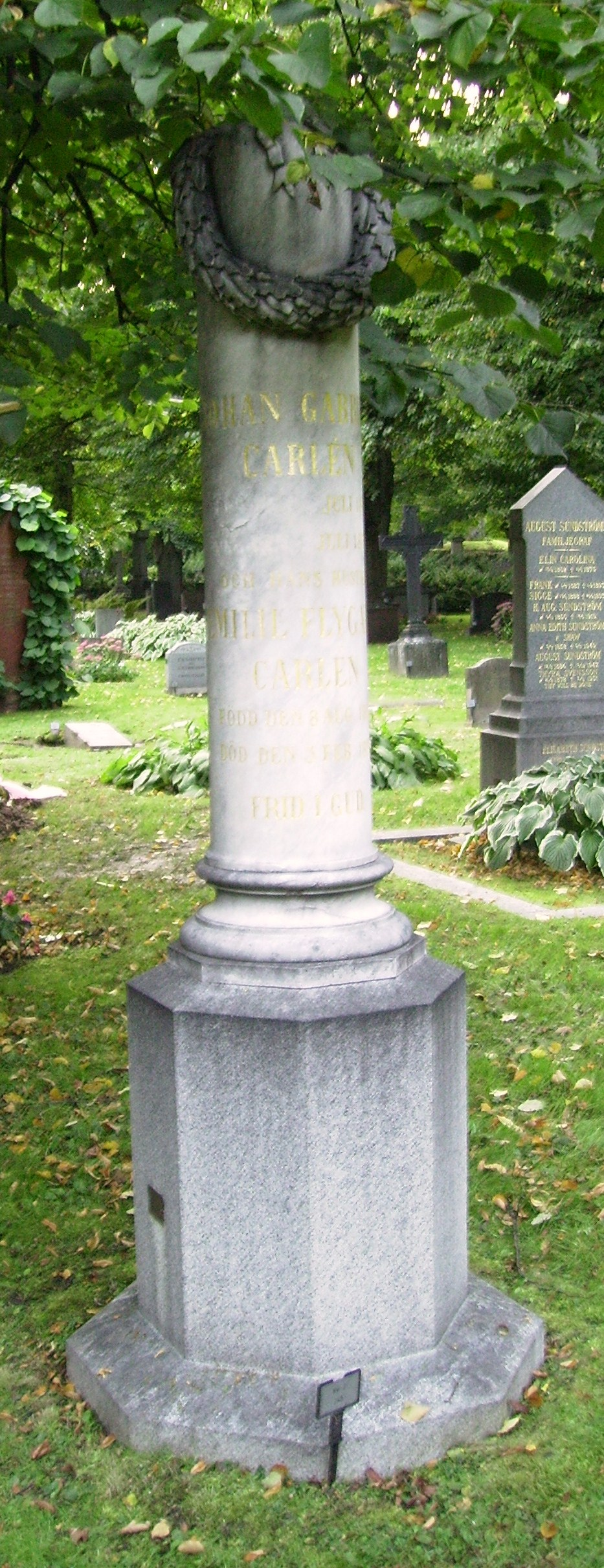 Picture of Emelie Carlén-Flygare's grave at Norra begravningsplatsen in Solna